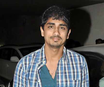 Siddharth Narayan at the special screening of 'Chashme Baddoor'